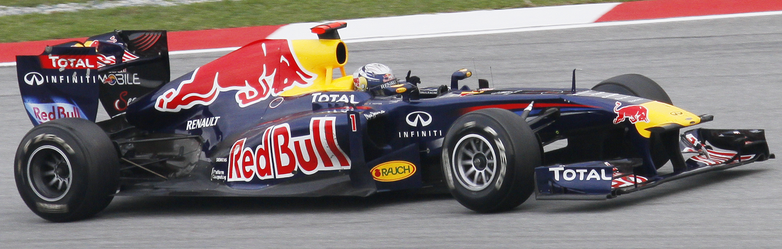 Formula One 2011 Rd.2 Malaysian GP: Sebastian Vettel (Red Bull) won the race.